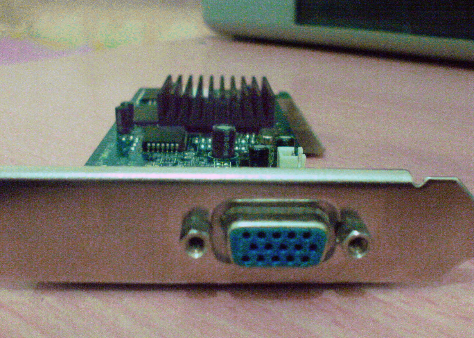 Video card - Monitor connection port